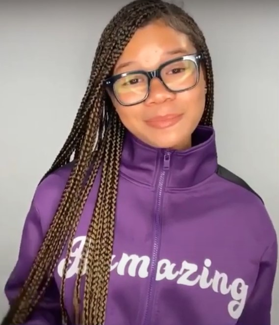 Storm Reid in a video message for ATTN to prevent the Coronavirus in 2020